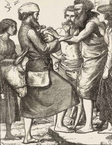 Engraving by John Everett Millais illustrating the parable of the Pearl of Great Price. Published in Parables of Our Lord, 1864